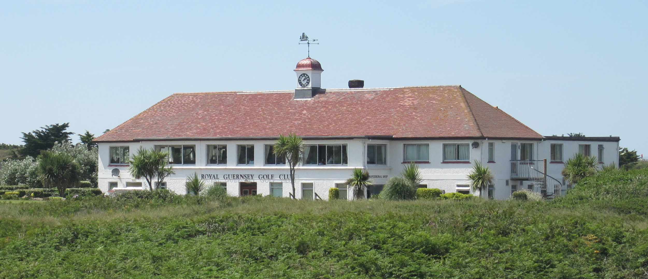 Guernsey, July 2011: The clubhouse of the Royal Guernsey Golf Club at Vale